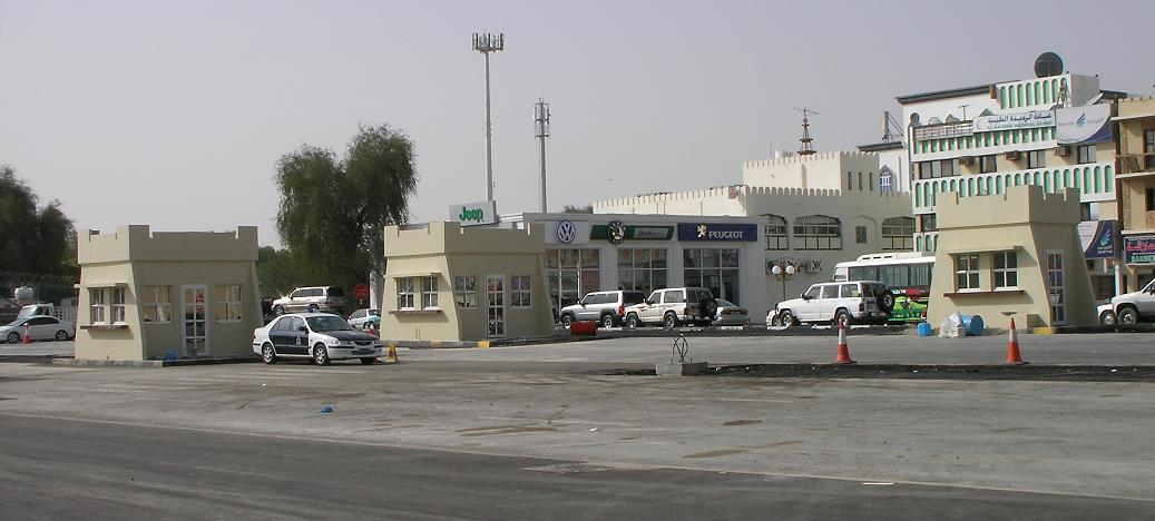 Border controls under construction at the United Arab Emirates–Oman barrier in Al-Ain (UAE) / Buraimi (Oman)